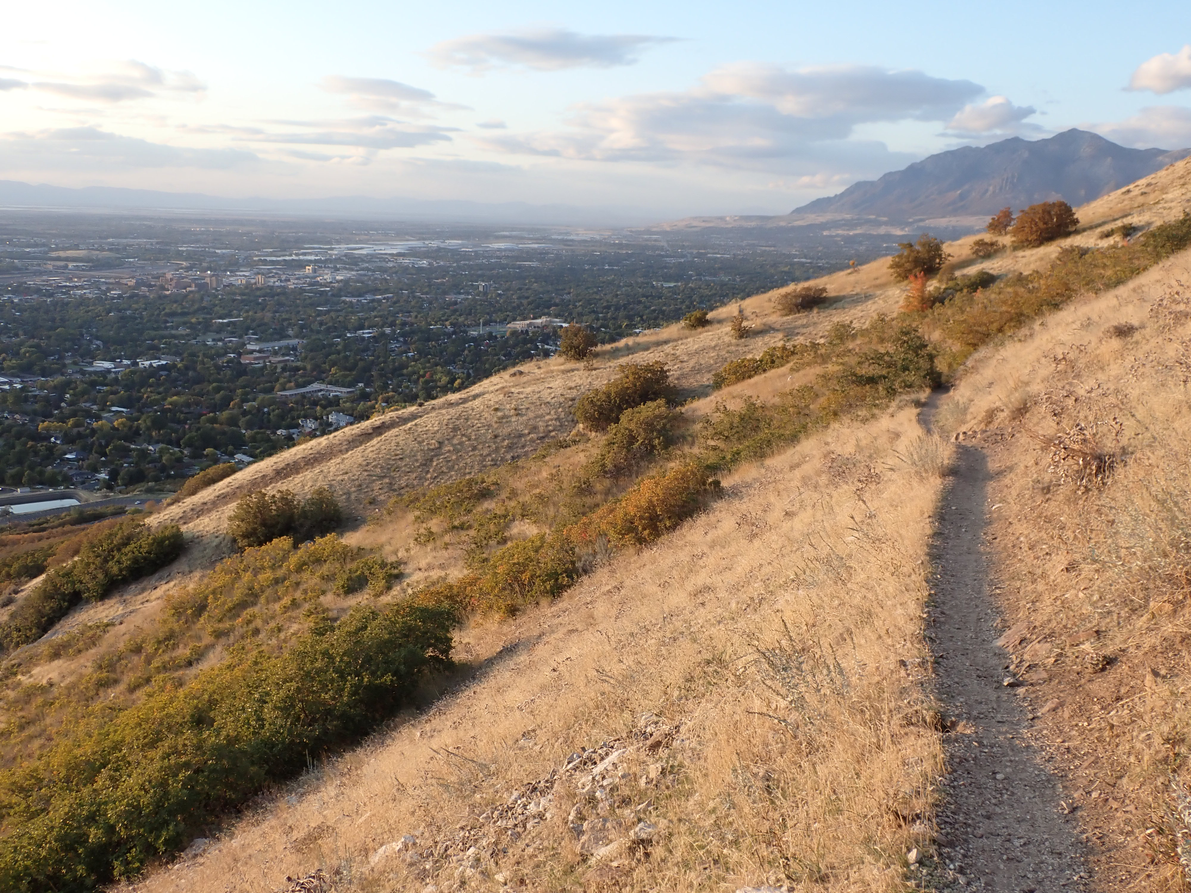 Bonneville shoreline trail towards Ben Lomond, Ogden, Utah, USA